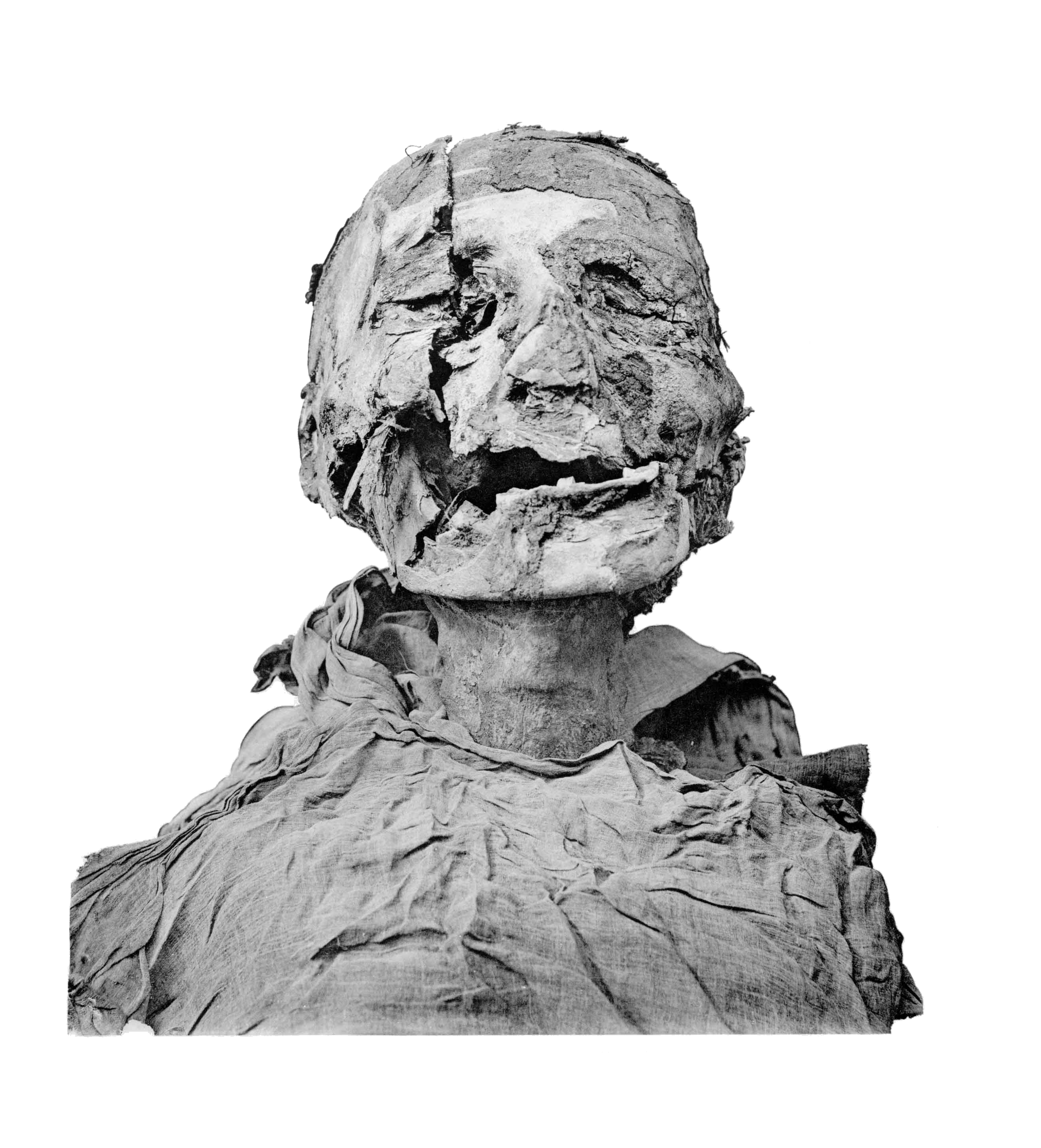 Head of mummy of pharaoh Ramesses VI.